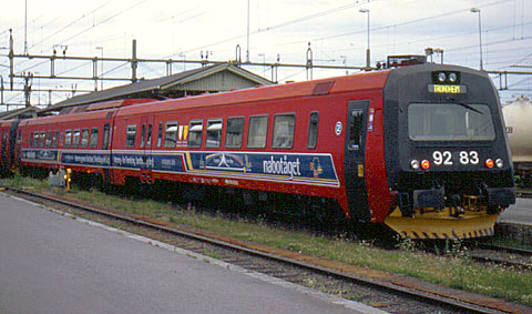 Nabotåg-train in Östersund in Sweden.